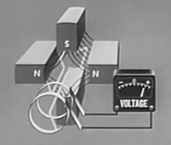 A single-phase generator with four poles. A rectangular loop armature, in a 90-degree angle, cuts the lines of force producing electrical current. The current is sent out through two slip rings and brushes. As the armature rotates one revolution, it generates two cycles of single phase alternating current (AC).